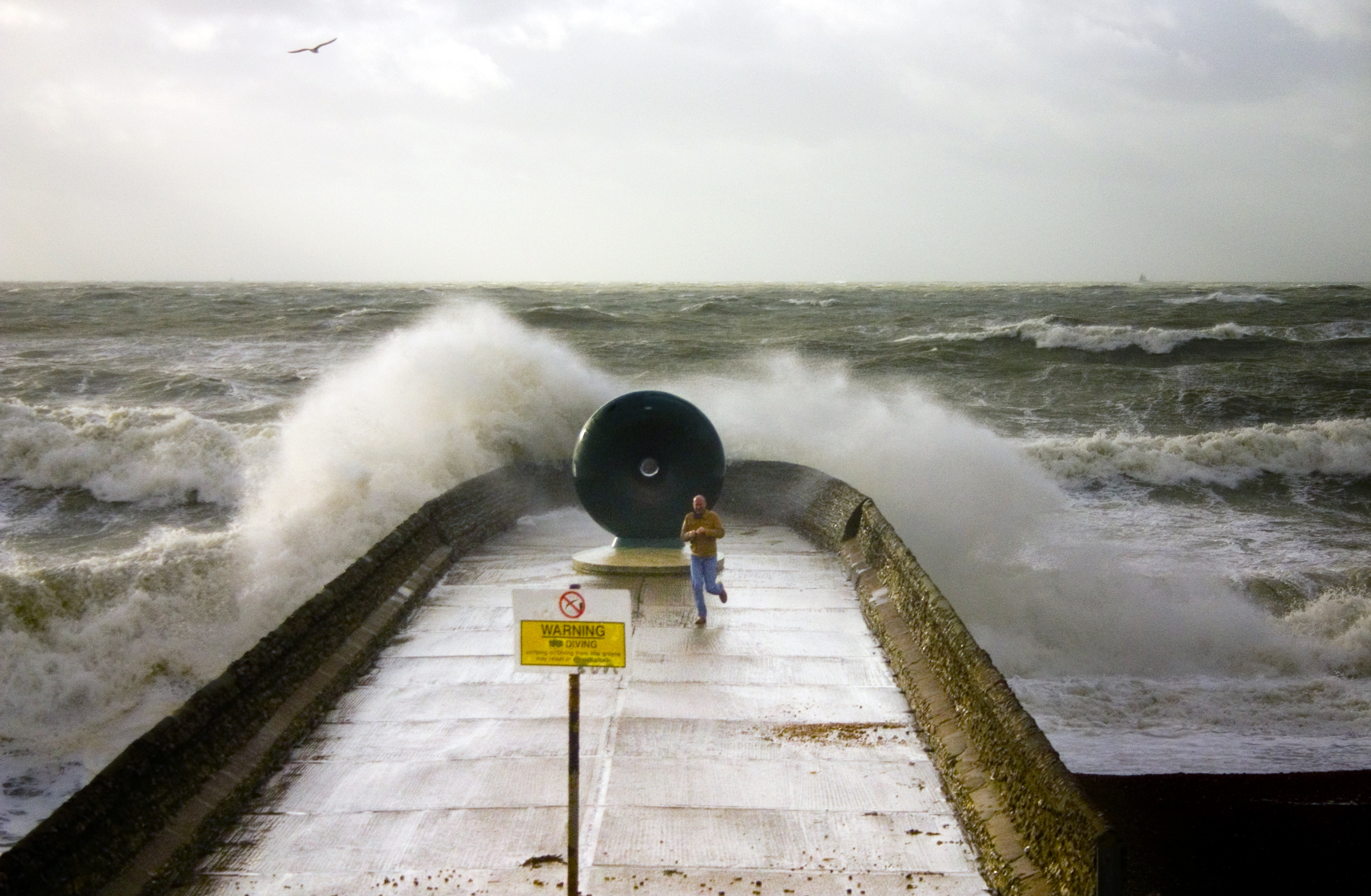 An adventurous photographer flees a giant wave breaking over the breakwater/groyne featuring the The Big Green Bagel, a sculpture also known locally variously as the Donut / Doughnut / Seasick Doughnut Sculpture. A number of photographers were out to capture the monumentally seething sea. Although not actually raining, the wind brought in a horizontal spray of sea water that coated the camera lens in seconds.